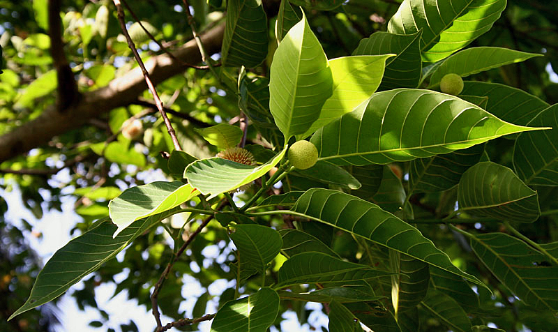 Kadamb Neolamarckia cadamba in Kolkata, West Bengal, India.